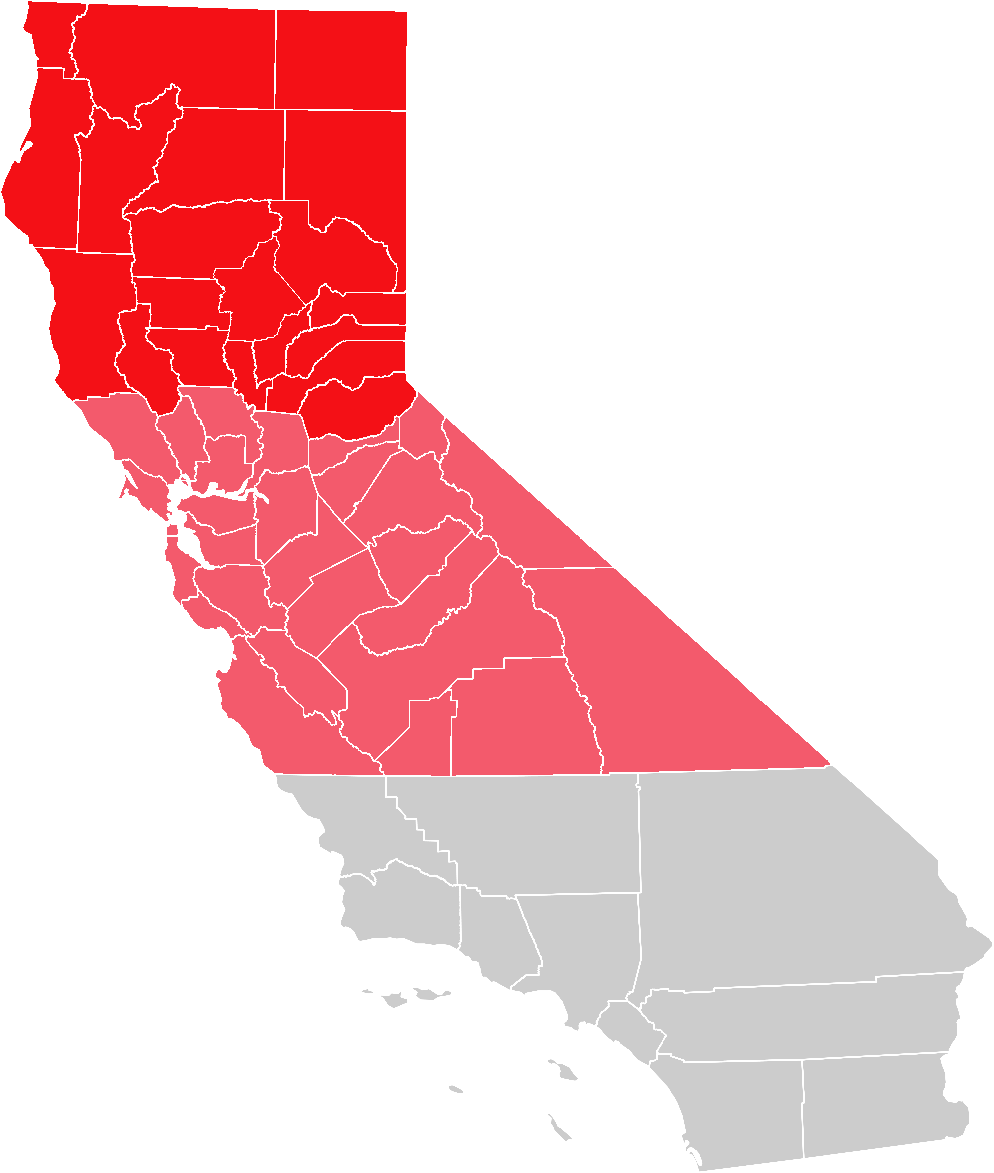 Map of the counties of Upstate California (dark red) and Northern California (both shades).